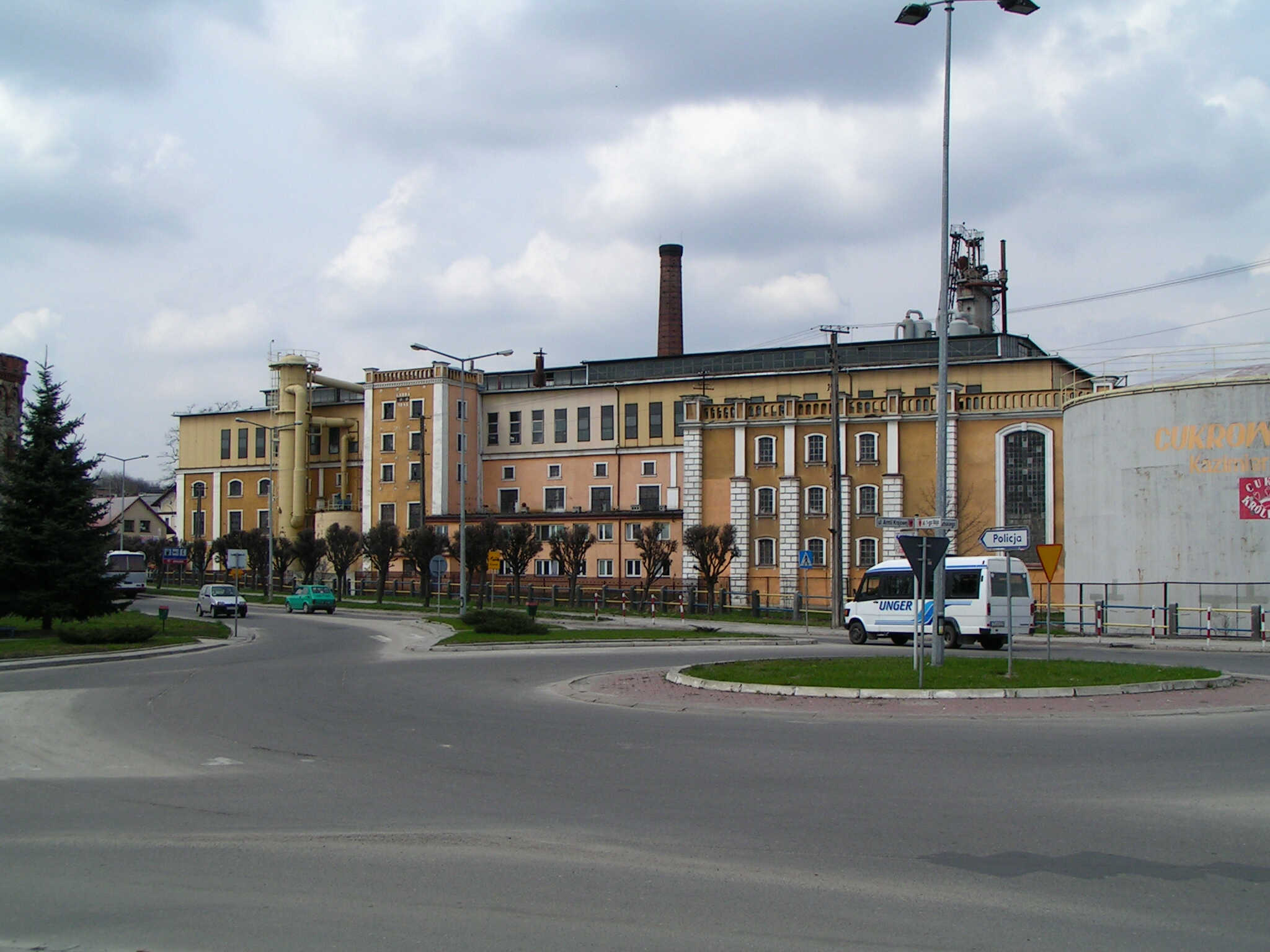 The main building of sugar factory Lubna in Kazimierza Wielka